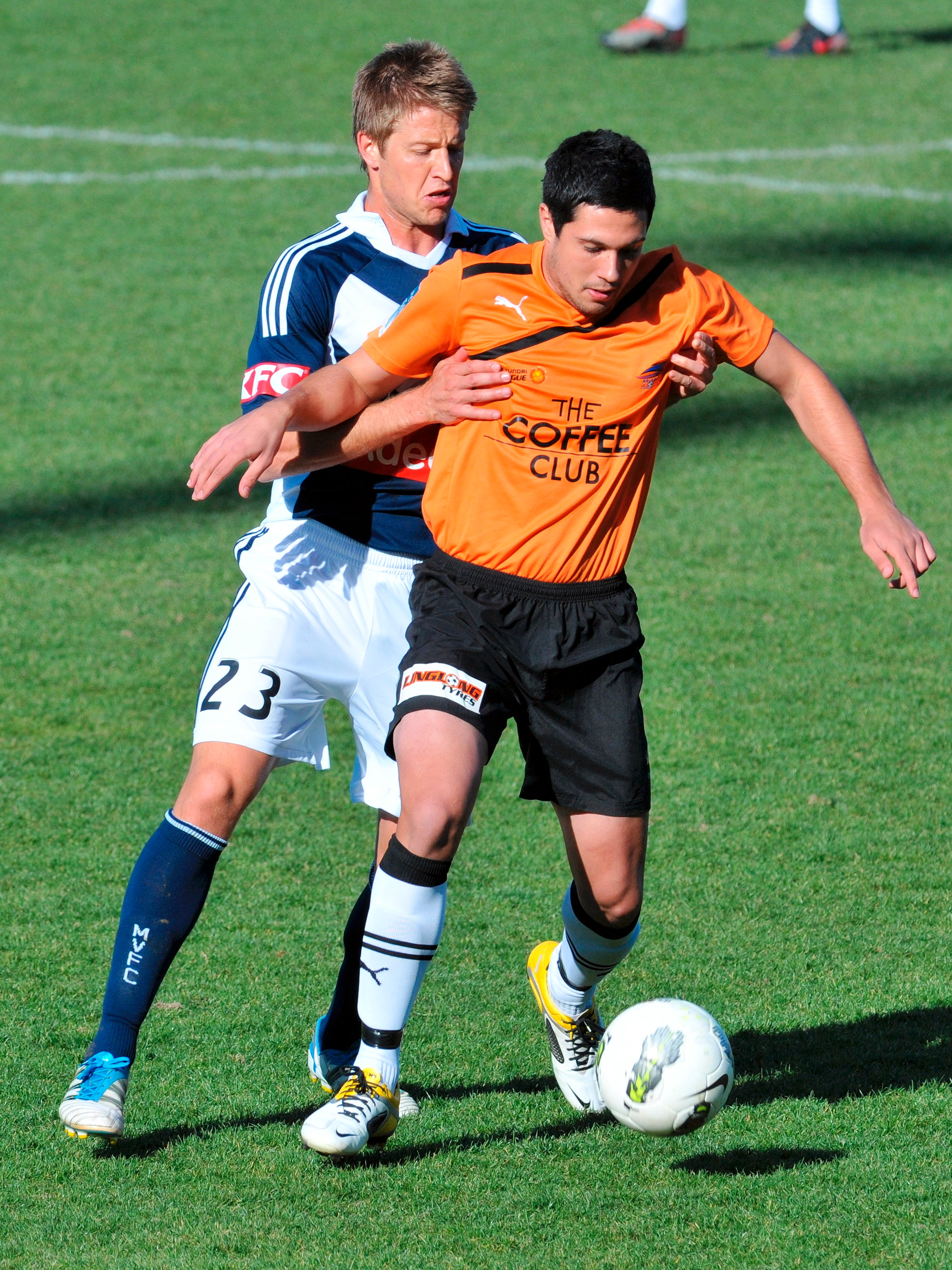 Adrian Leijer of the Melbourne Victory FC tickling Rocco Visconte of the Brisbane Roar FC during a pre-season match at Aurora Stadium, Launceston, Tasmania.